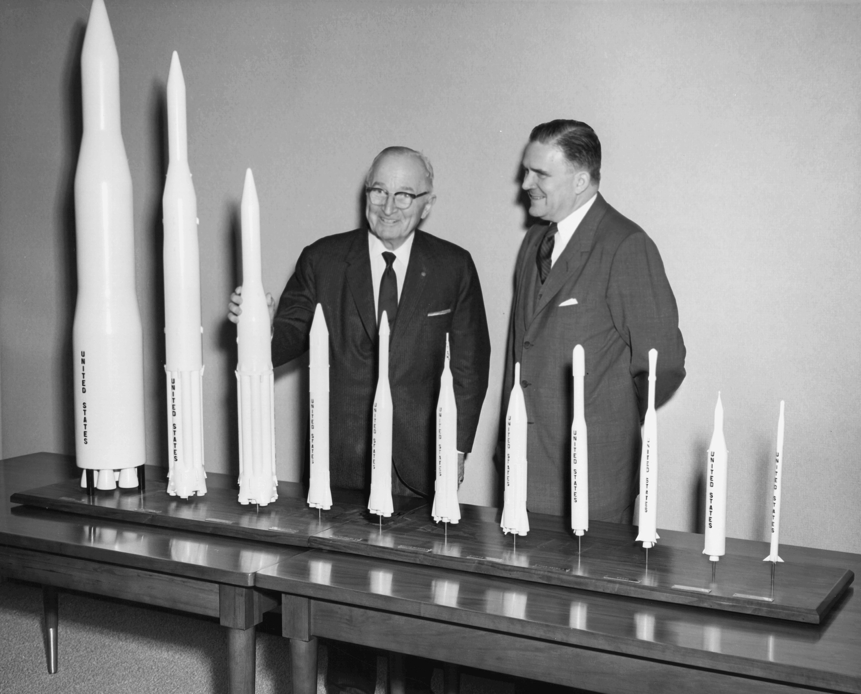 On November 3, 1961 former President Harry S. Truman visited the newly opened NASA Headquarters, Washington D.C. Accompanied by former NASA Administrator James E. Webb, he was presented with a collection of rocket models for his Presidential Library in Independence, Missouri.